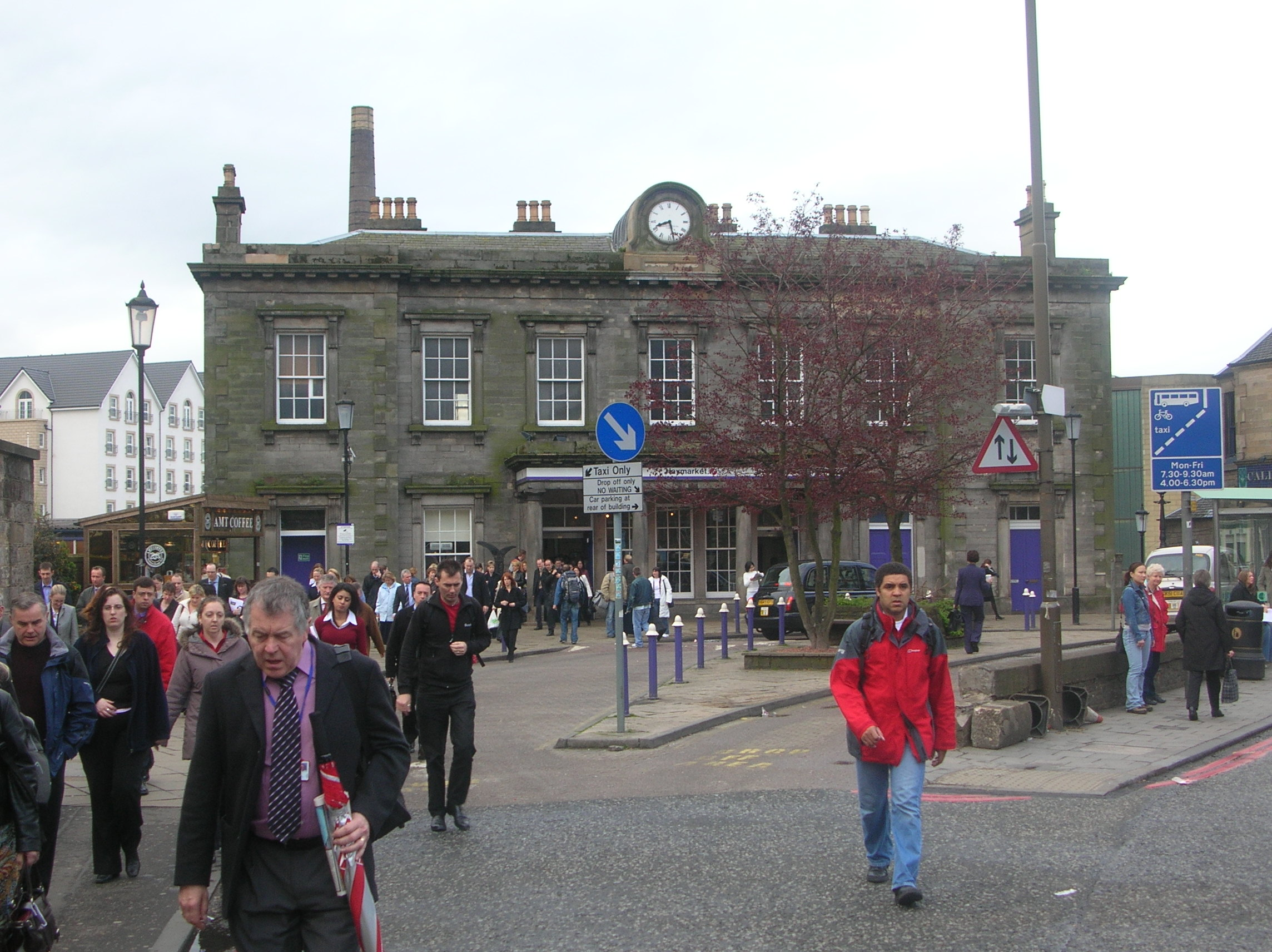 Haymarket station in Edinburgh.